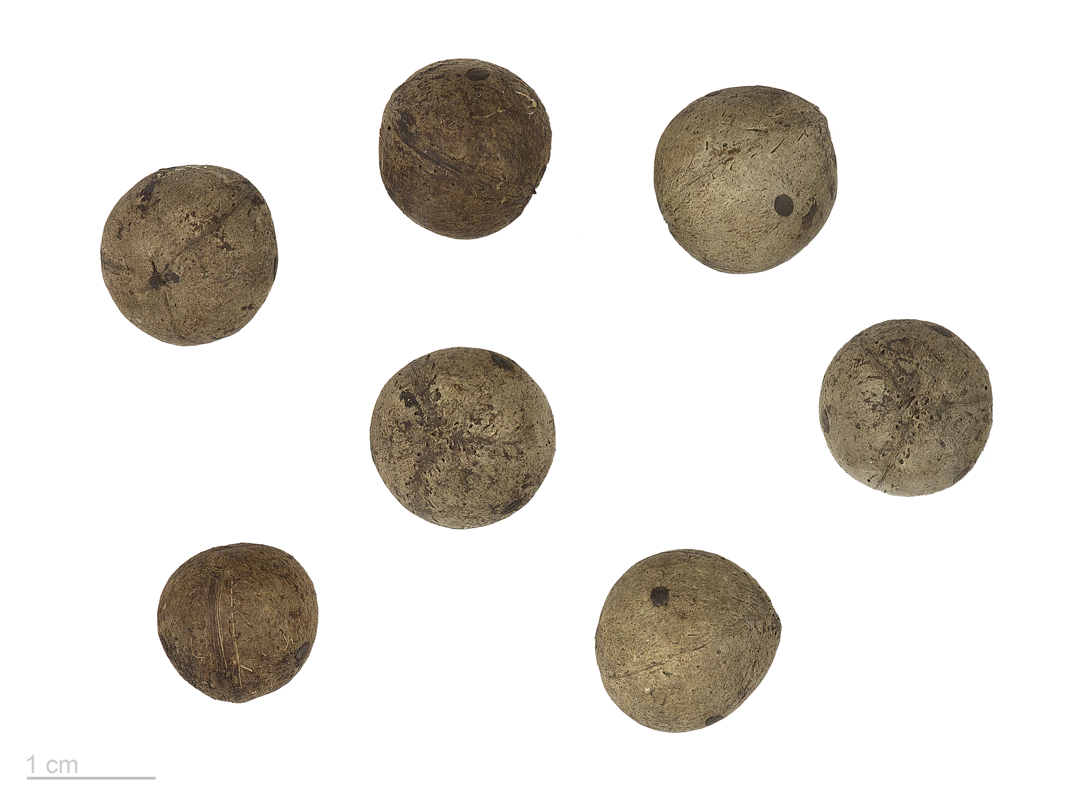 Butia capitata, jelly palm, seeds